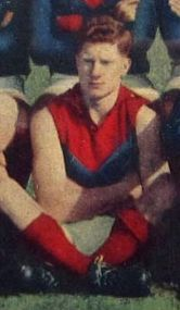 Photo of Frank Adams taken in 1954